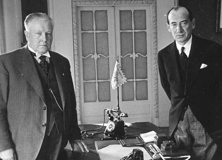 Gen. Jānis Balodis (Minister of Defence of Latvia) (left) and Józef Beck ( Minister of Foreign Affairs of Poland) during official visit Beck in Latvia 1938